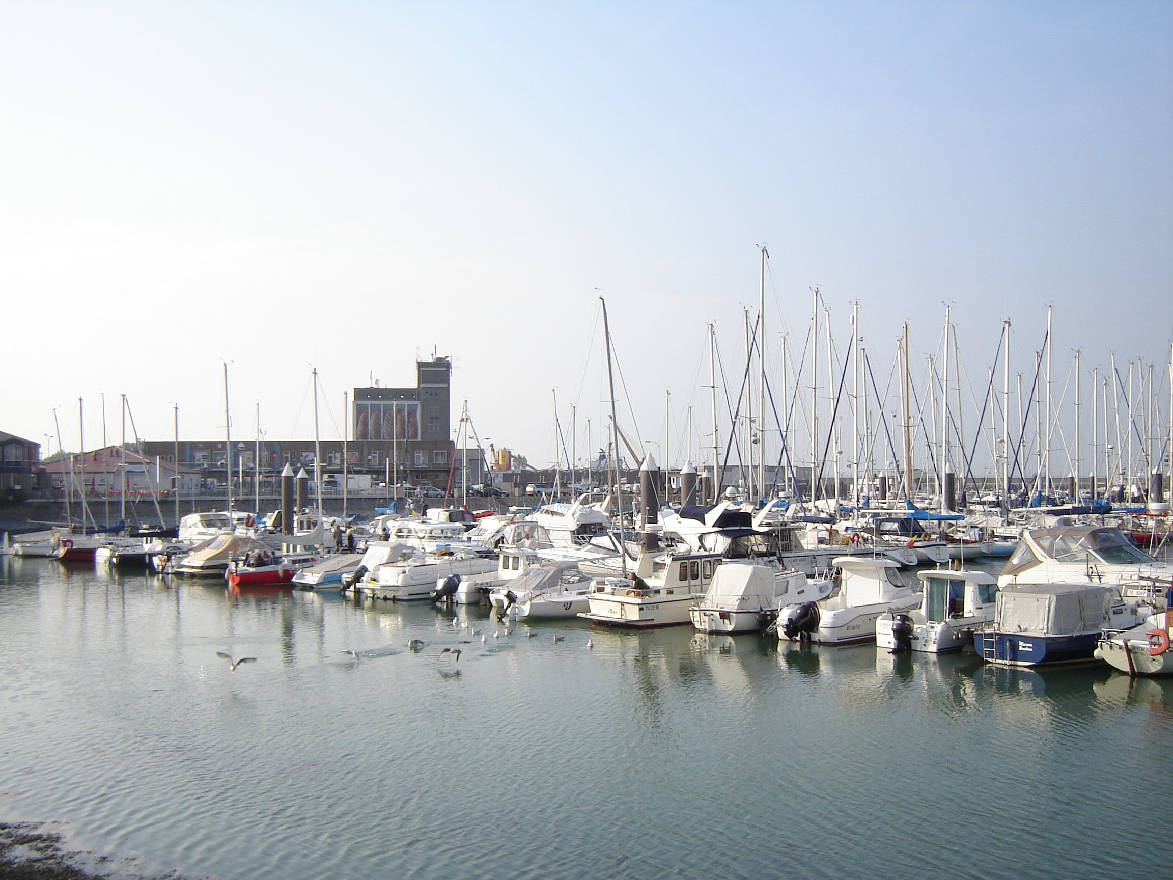 Marina of Breskens. Breskens, Sluis, Zeeland, Netherlands